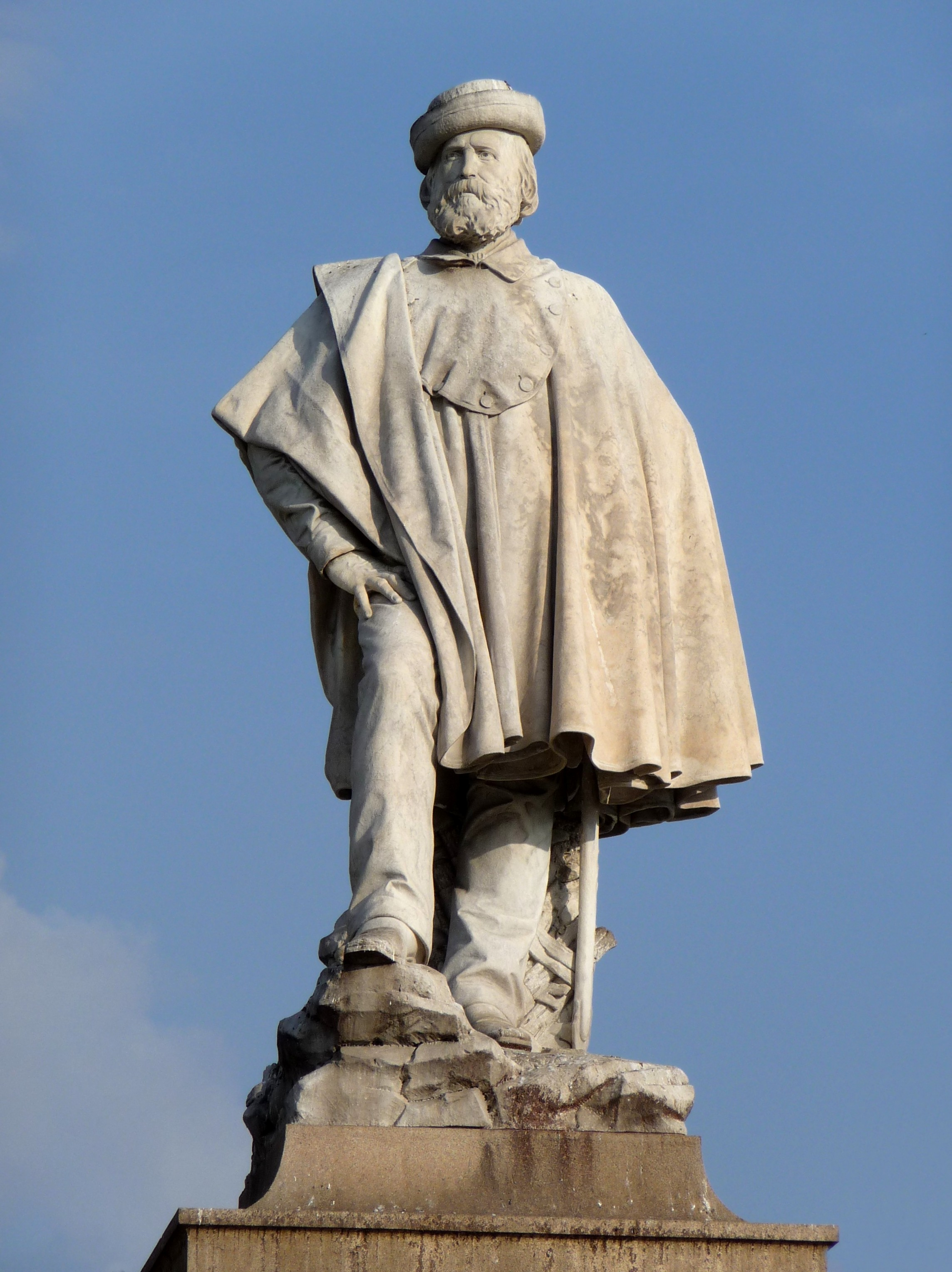 Monument for Giuseppe Garibaldi, Piazza Garibaldi, Livorno, Italy Work by Augusto Rivalta (1837–1925)